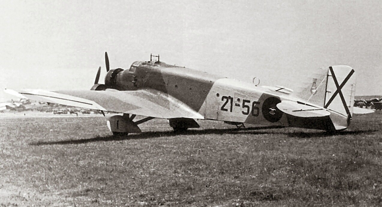 A Savoia Marchetti SM.81 of the 16-G-21, one of the Groups of the Aviacion Nacional which flew the SM.81s